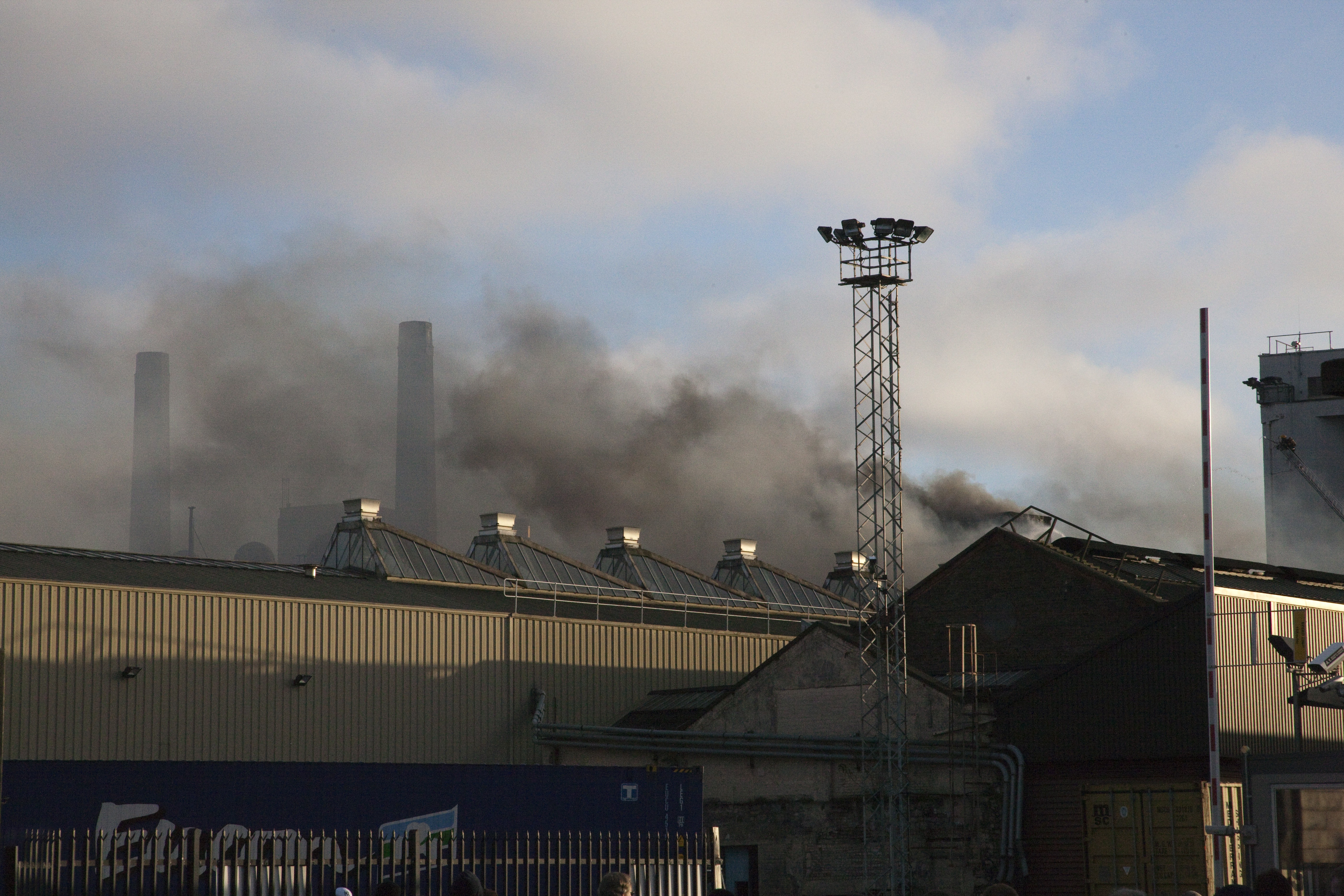 Black smoke coming from the Guinness Brewery.